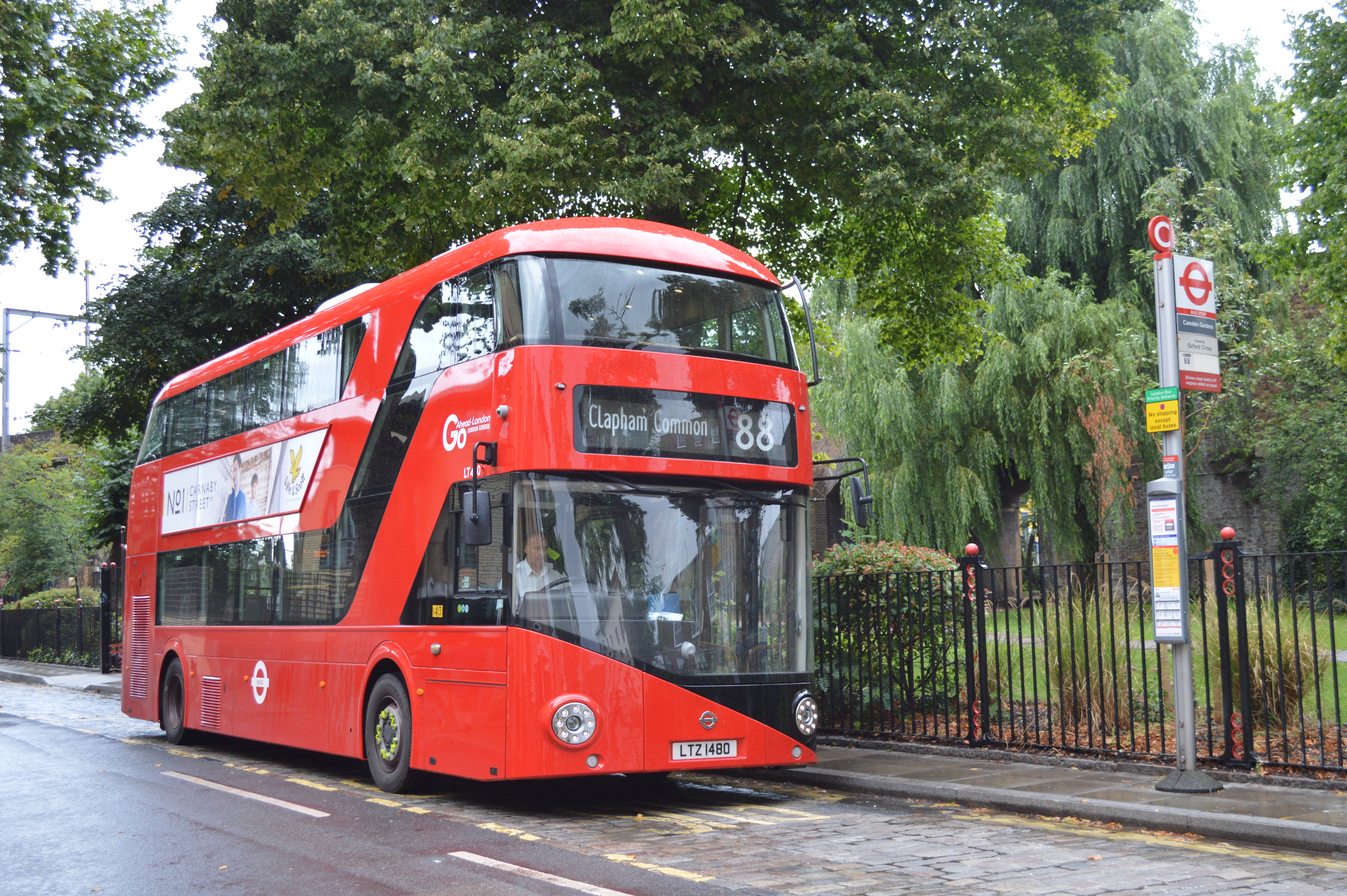 LT 480 (LTZ 1480) Go-Ahead London New Routemaster is seen in Camden Gardens, Central London on route 88 on layover until it’s next journey to Clapham Common. This is seen on Thursday 27 August 2015.